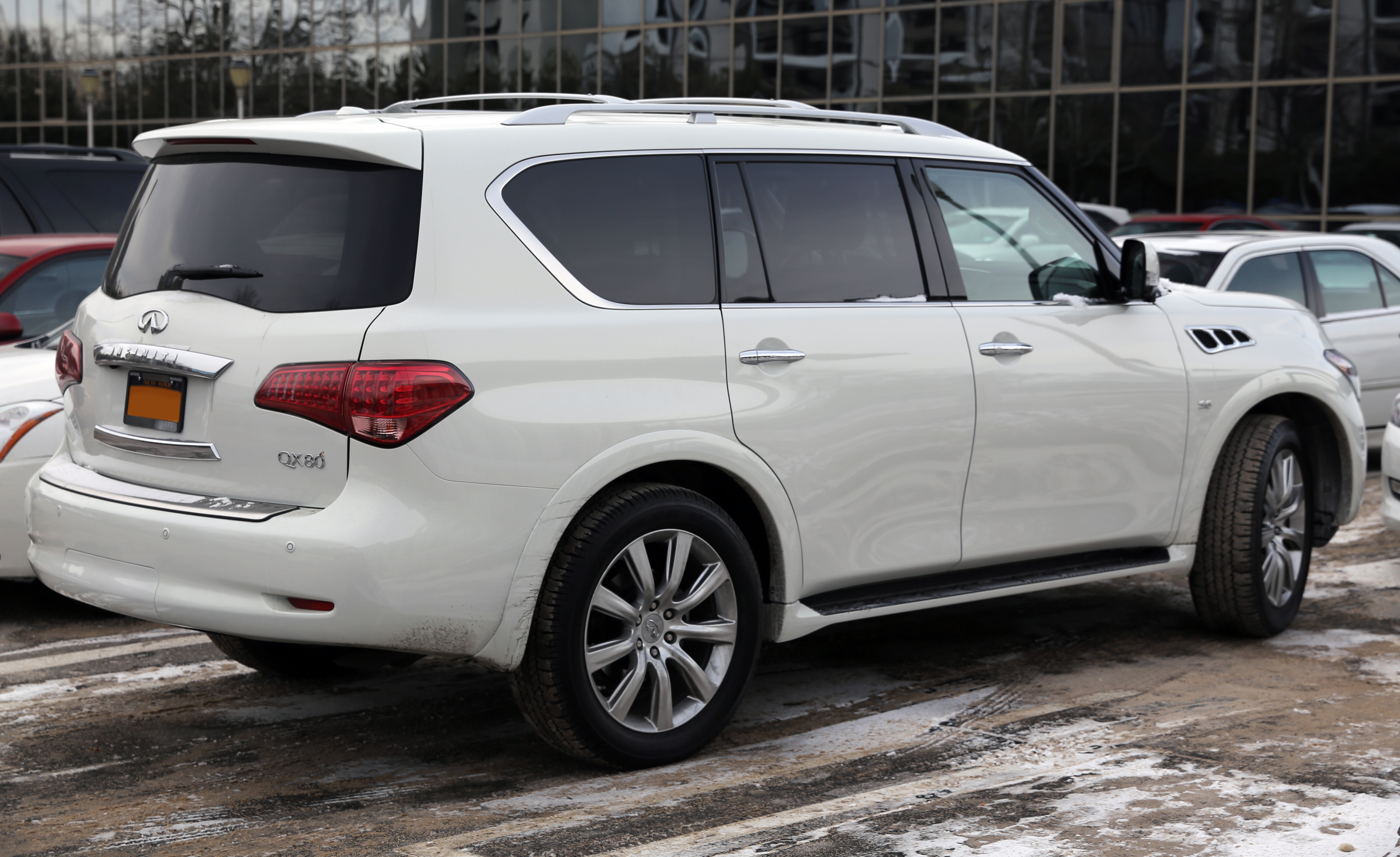 Rear view of a 2014 Infiniti QX80 in Floral Park, NY.